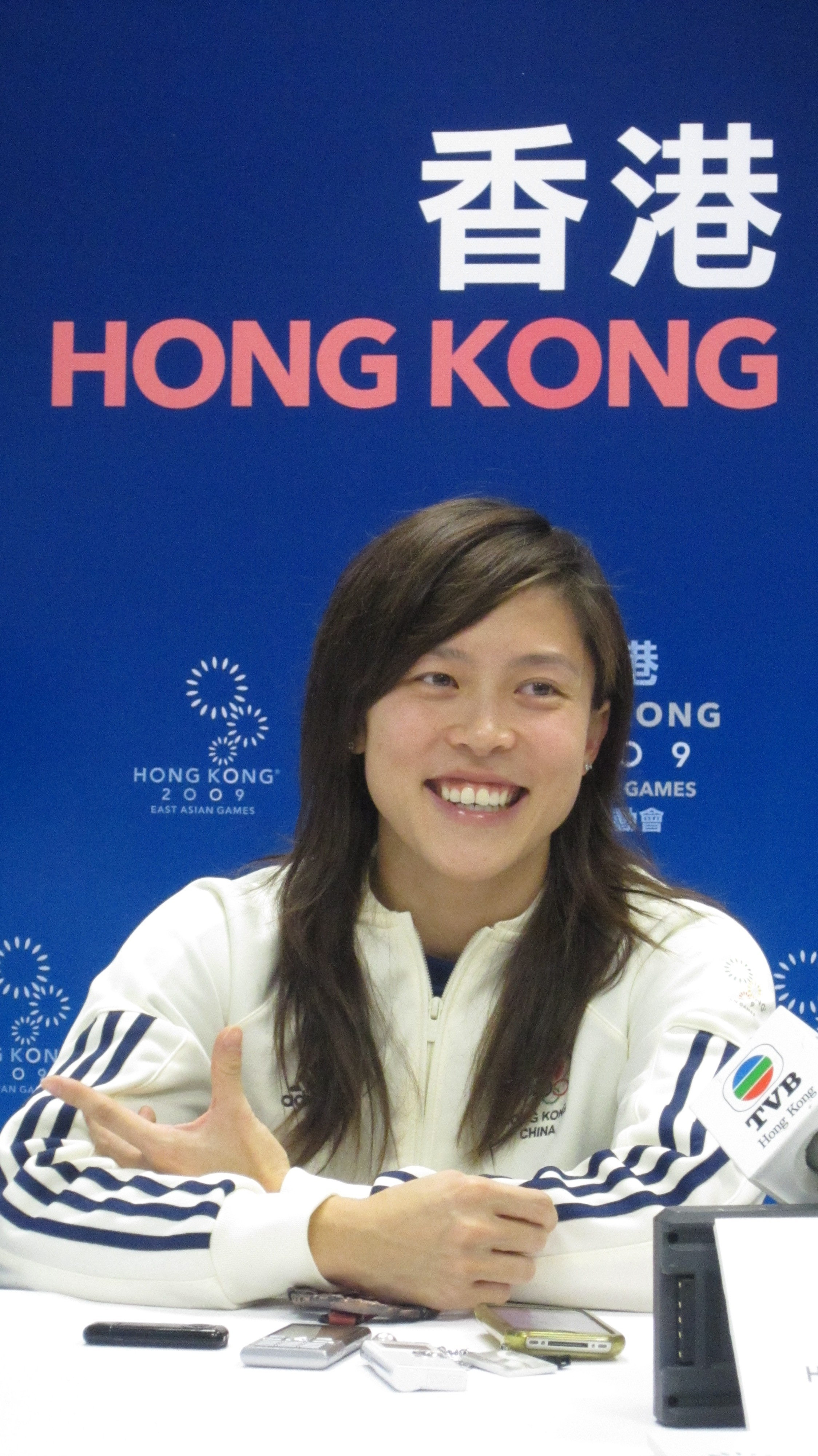 Sherry Tsai in the press conference after her final rane on Dec 10, 2009, during Hong Kong 2009 East Asian Games